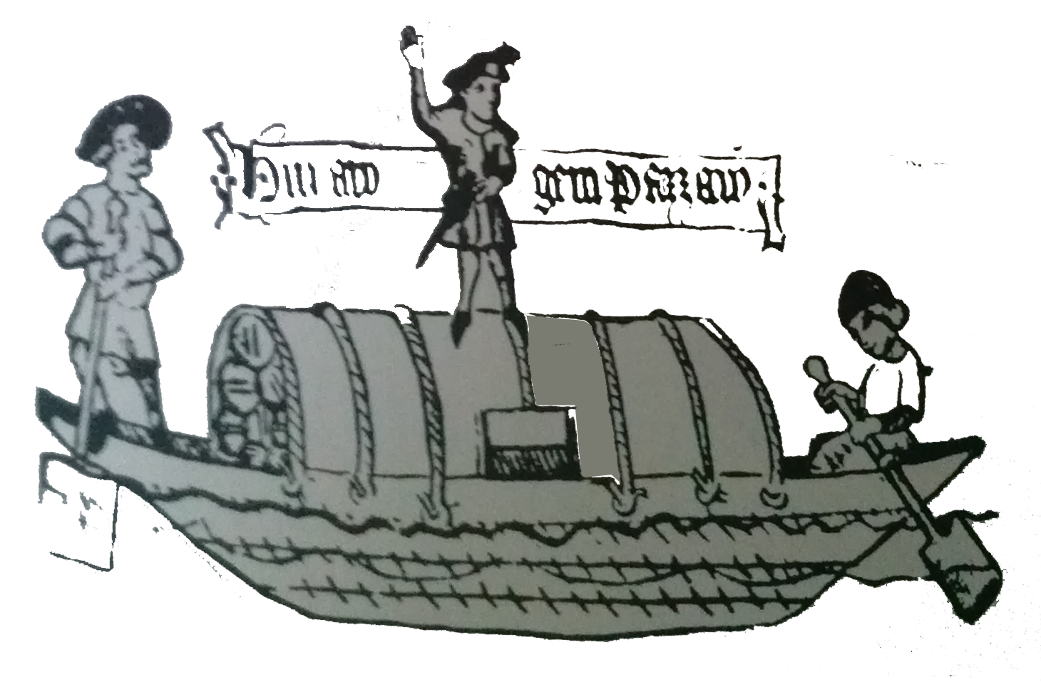 Darstellung einer Naufahrt im "Schiffleutzechbuch" aus dem Jahr 1322.